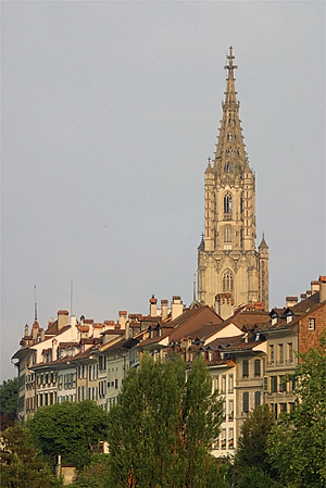 Tower of Berne Cathedral